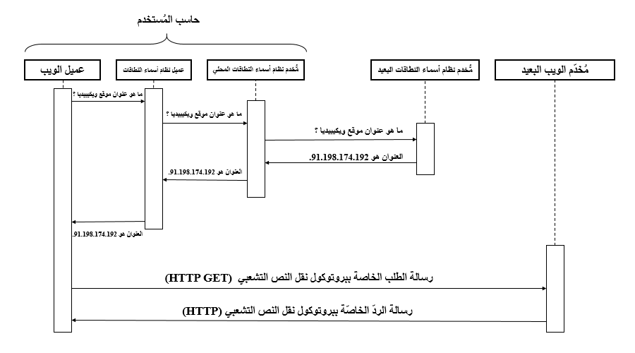 Client/Server model example, Web browsing sequence diagram.